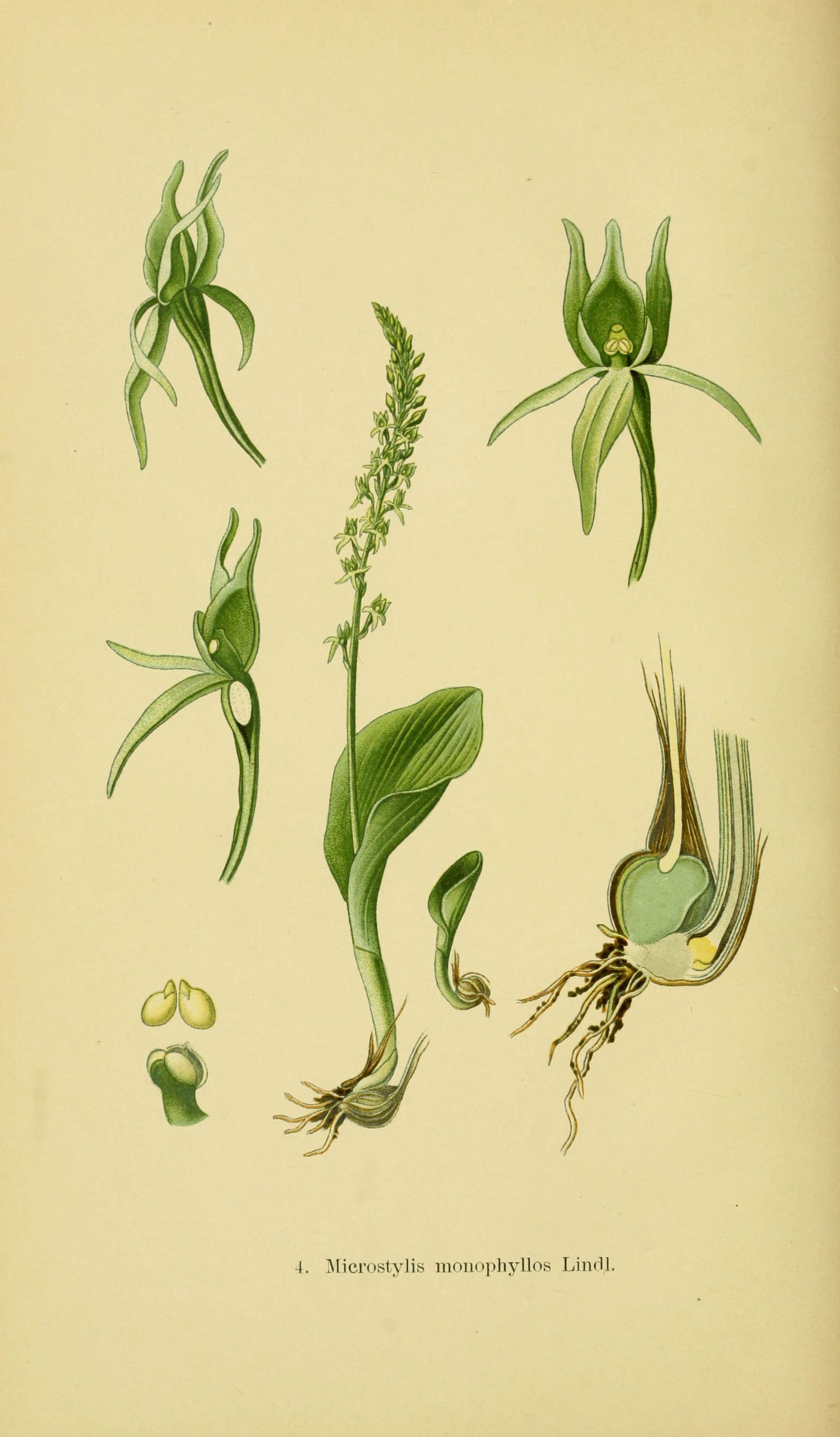 I. Microstylis monophyllos Lindl.